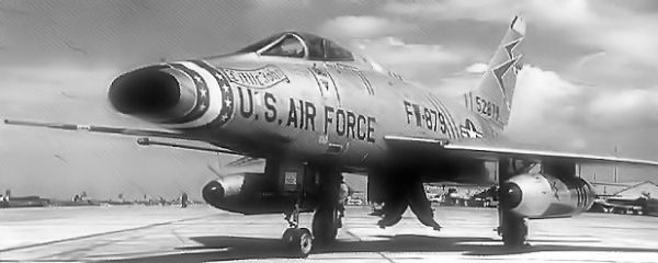 North American F-100D-50-NH Super Sabre 55-2879 of the 39th Air Division - Kunsan Air Base South Korea.